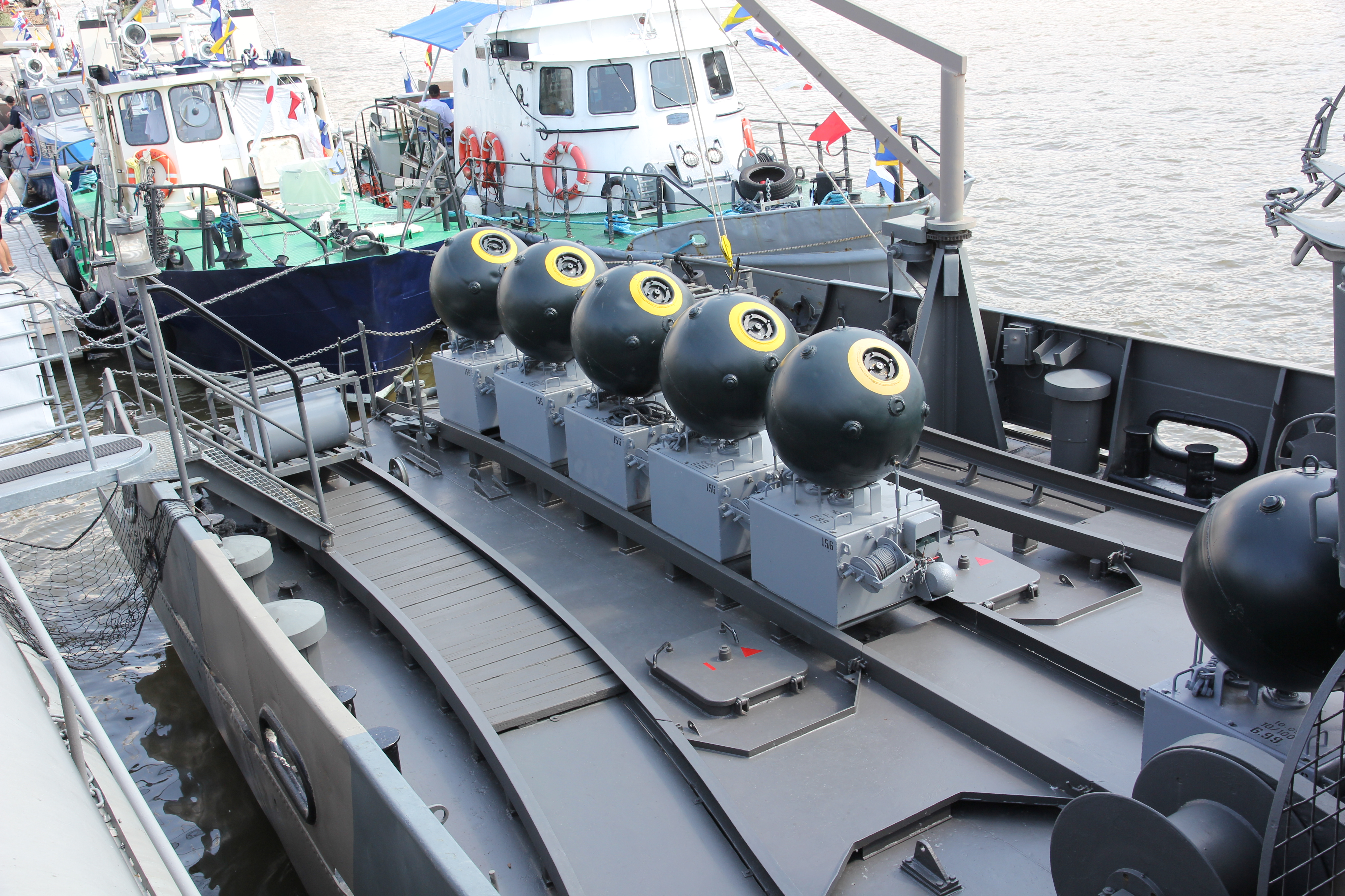 Stern of the Finnish minelayer Keihässalmi in Forum Marinum.